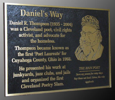 Daniel Thompson commemorative plaque I made this image myself.